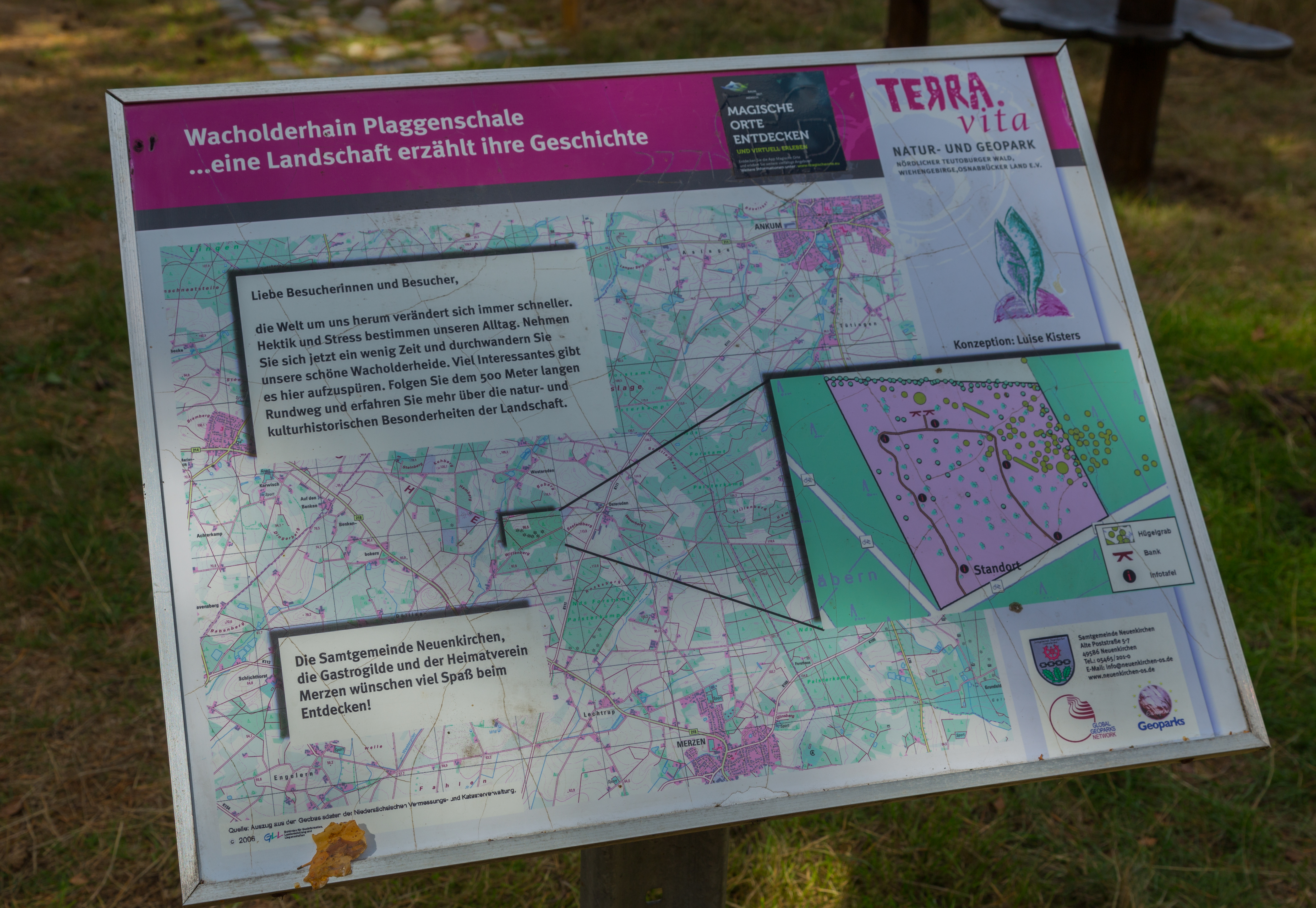 Information tablet at the Plaggenschale juniper grove (Wacholderhain Plaggenschale) near Plaggenschale, district of Merzen, Lower Saxony, Germany. It is a heathland named after the common juniper (Juniperus communis) and belongs to the Terra.vita Nature Park (Natur- und Geopark Terra.vita). The site is also famous for its 111 mound graves (tumuli) from the Iron Age and the Bronze Age.